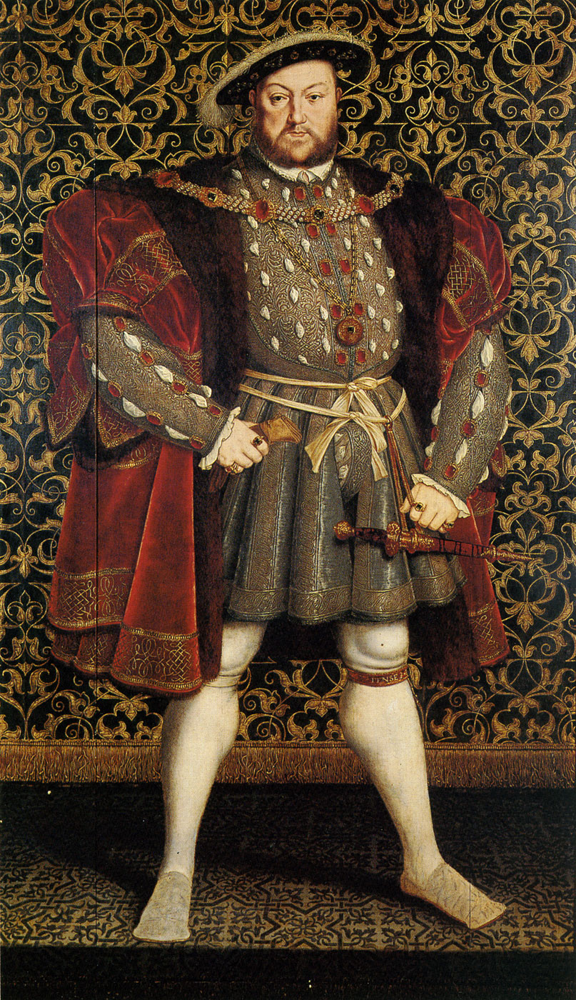 Portrait of Henry VIII of England by Hans Eworth, after Hans Holbein the Younger, Chatsworth House.